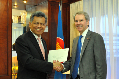 Ambassador David L. Carden presents his credentials to ASEAN Secretary General Dr. Surin Pitsuwan at the ASEAN Secretariat on April 26, 2011.